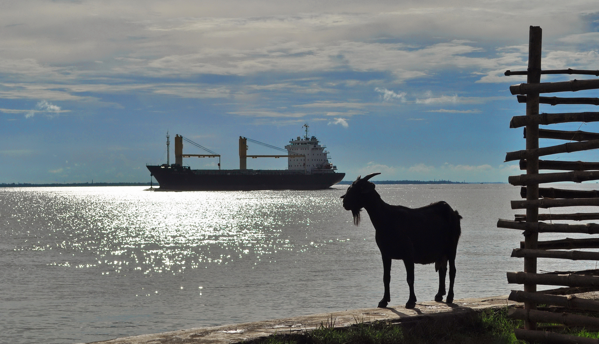 A feeder ship in Diamond Harbour, West Bengal, India. Uploaded by Fowler&fowler (talk) 21:24, 9 September 2012 (UTC). Sorry, the title is misleading: I realized only after I had uploaded it that it is anchored. A much awarded Flickr picture.